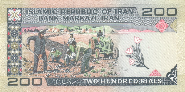 200 IRR banknote (1982 issue)